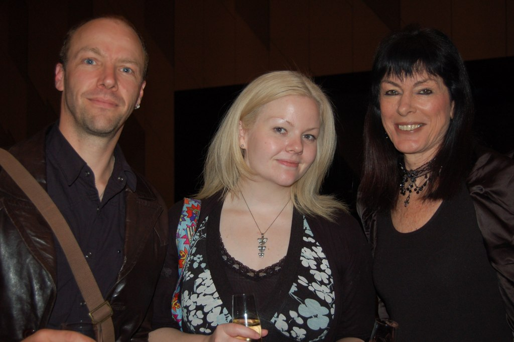 Australian speculative fiction authors Alan Baxter, Felicity Dowker, and Aileen Harland, at Aussiecon 4. Photograph by Catriona Sparks.